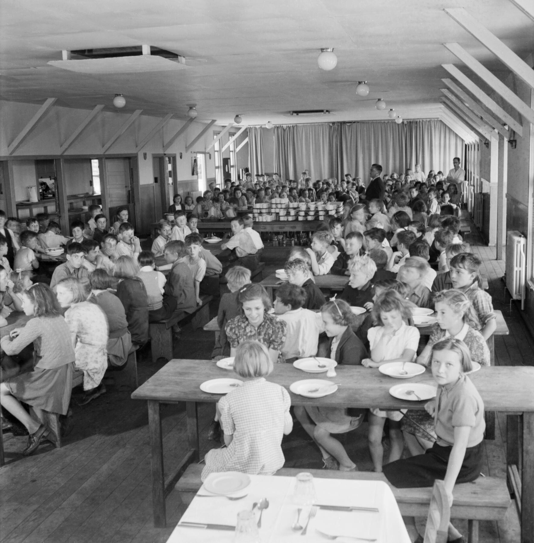 Evacuees in the dining hall of Marchant's Hill School, Hindhead, Surrey, 1944. A general view of children seated at tables in the dining hall at Marchant's Hill School, Hindhead. The hall, like the other buildings on the site, is a large wooden hut.